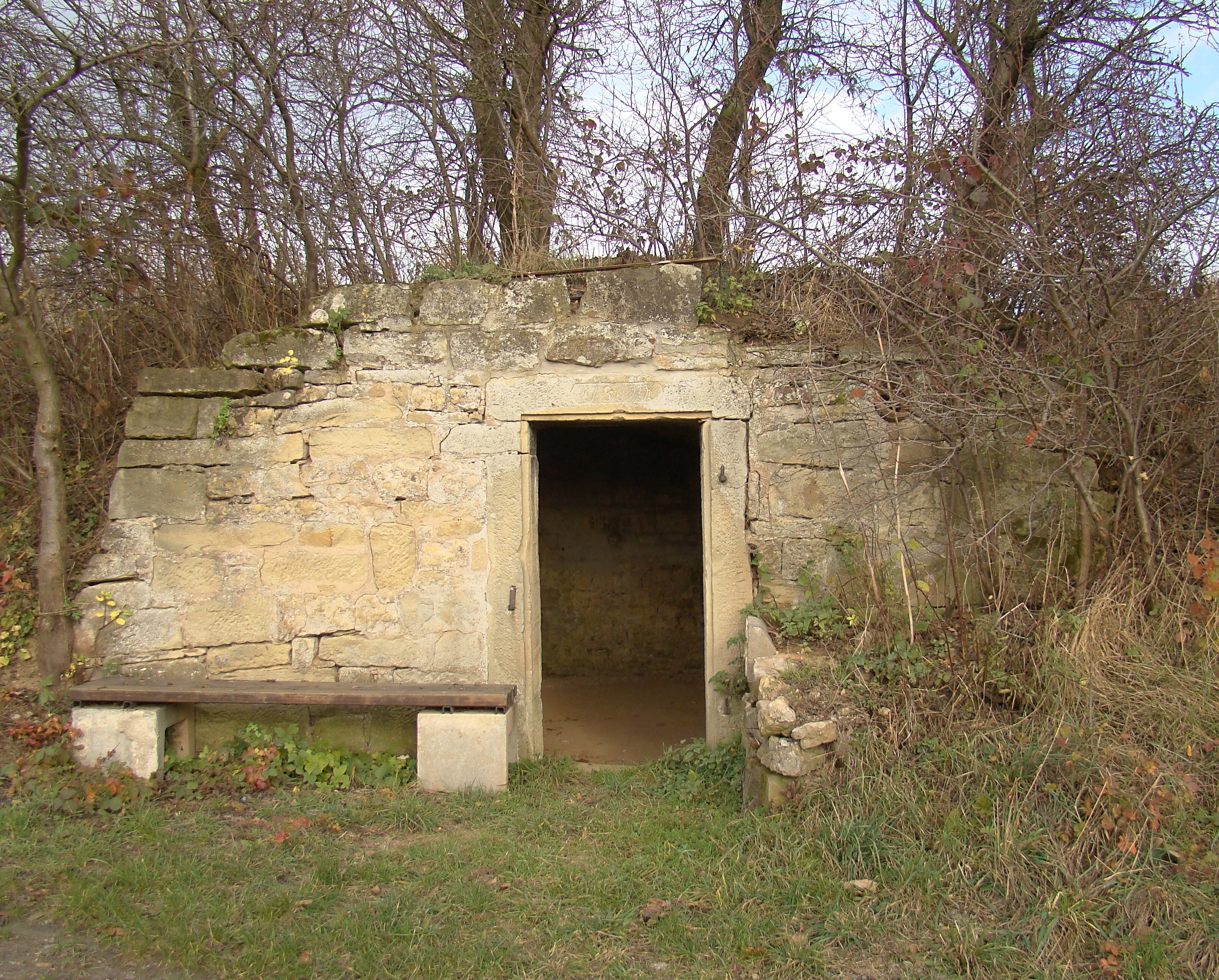 Old vineyard guardians' shelter, near Kirchheim am Neckar